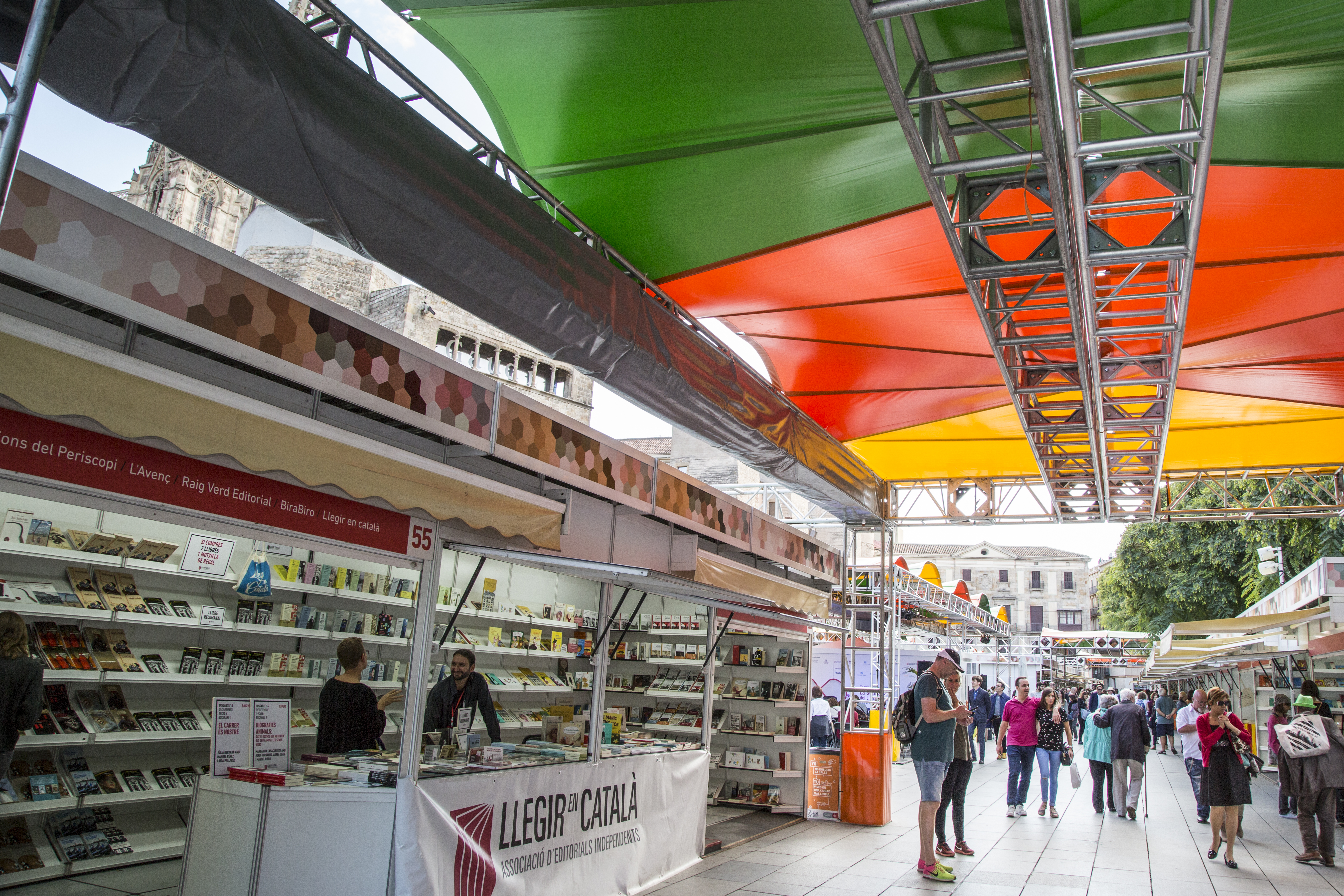 Stall of the Catalan Book Week 2017.